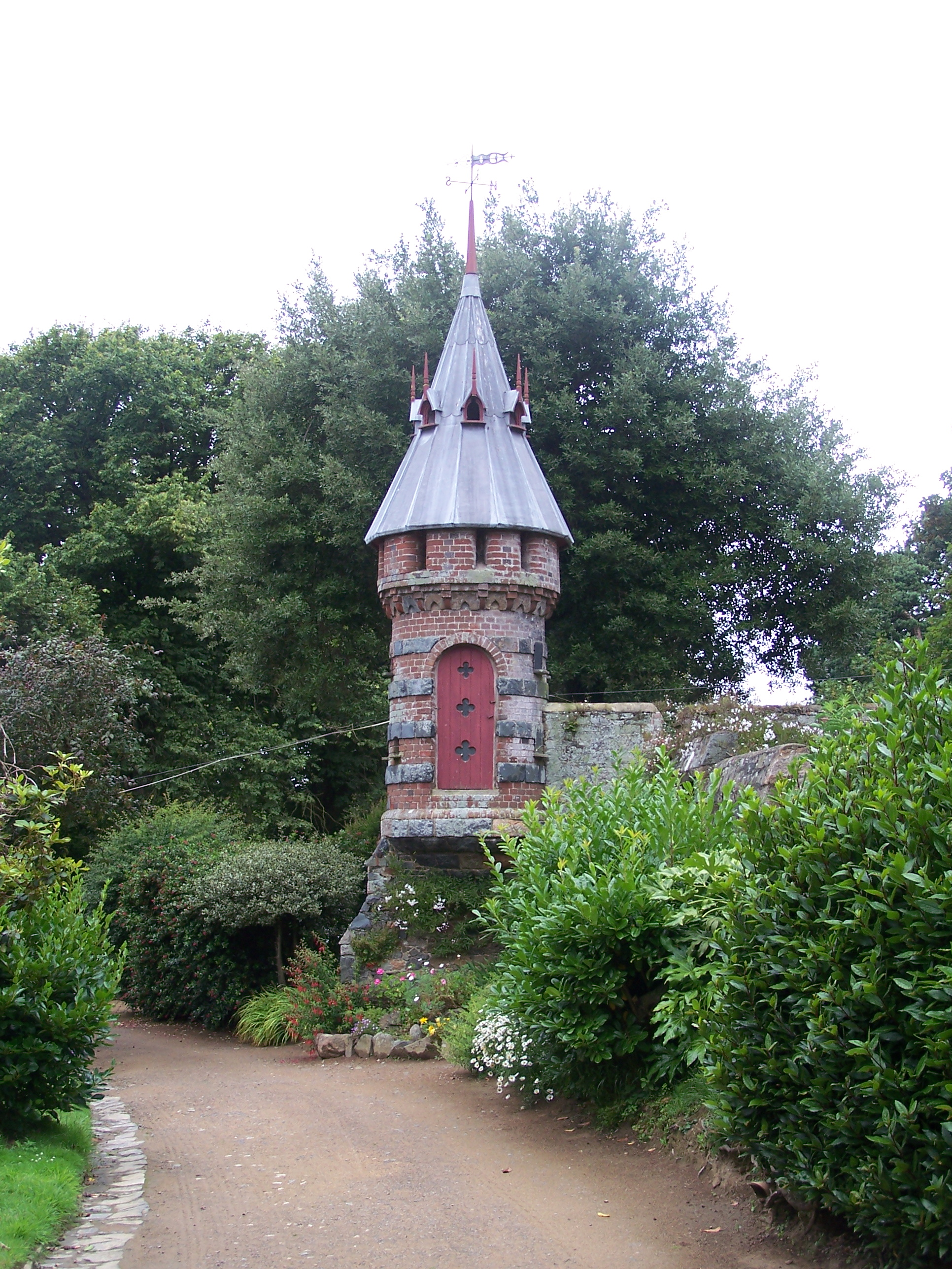 Dove-cote on the grounds of La Seigneurie, Sark